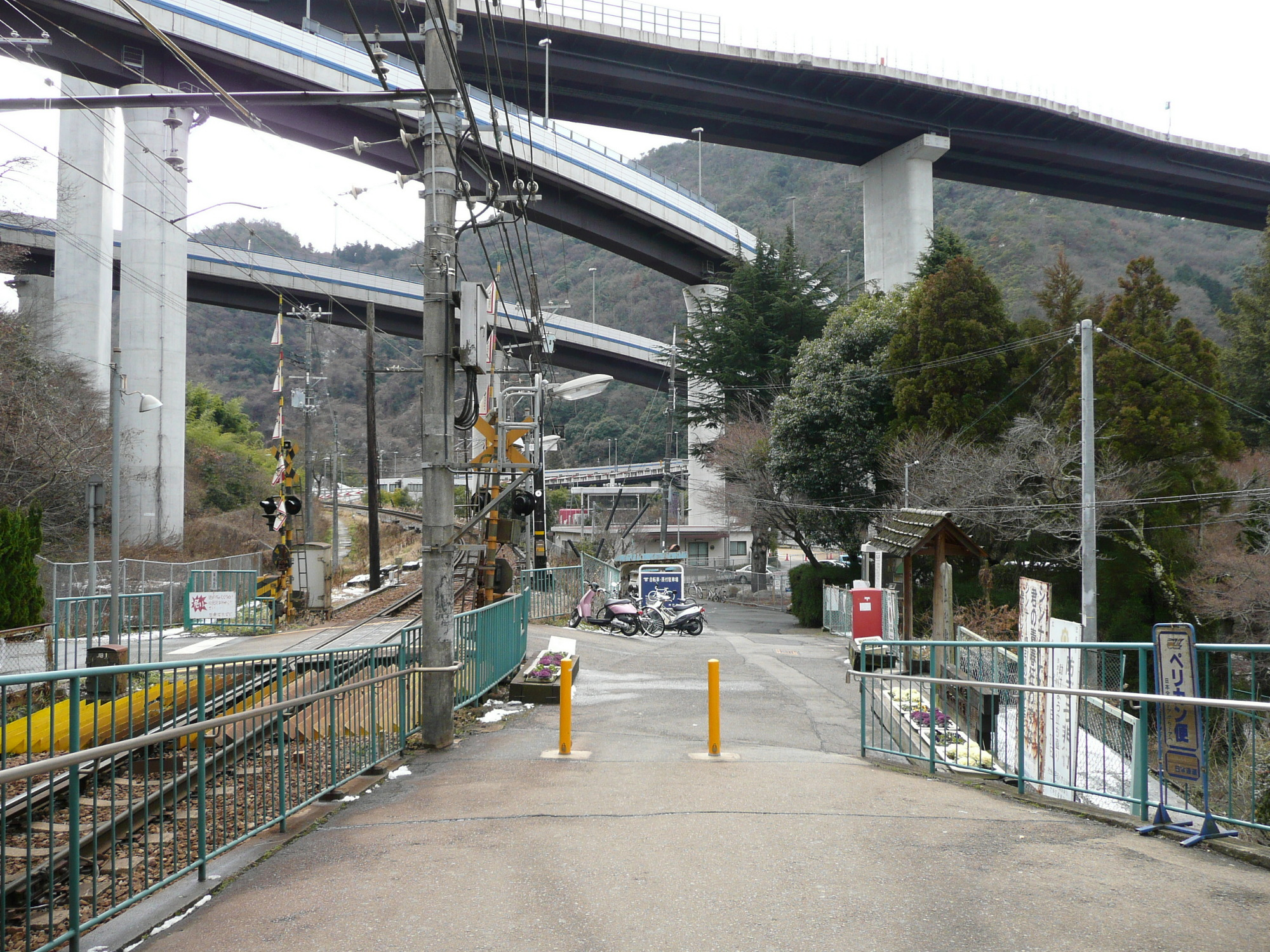 Station square of Kobe Electric Railway Gosha Station